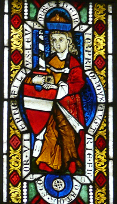 Henry II, Duke of Austria